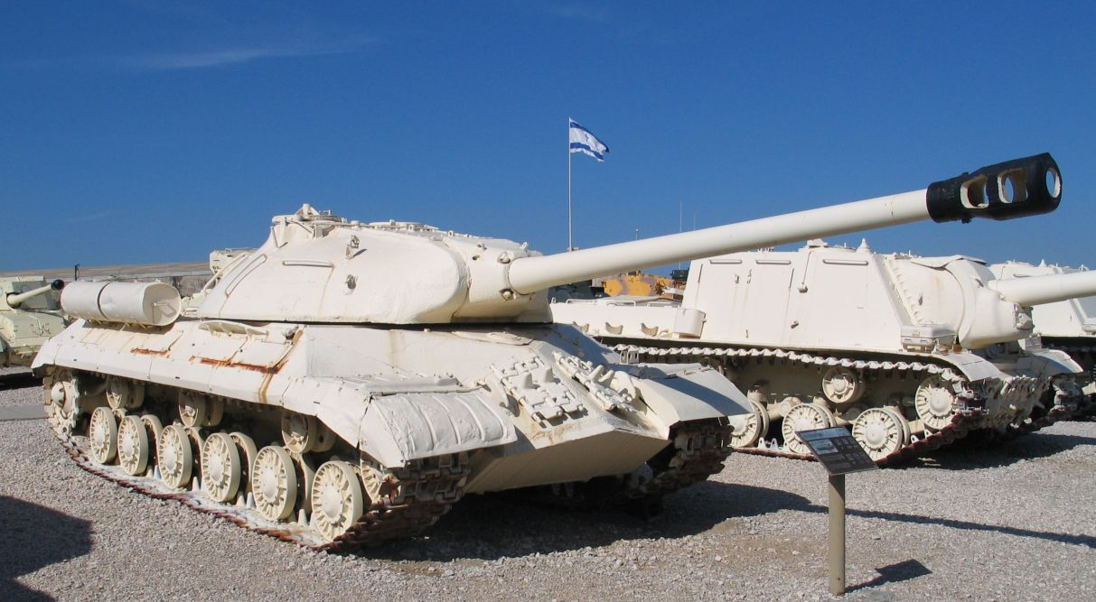 Captured Egyptian IS-3 heavy tank in Yad la-Shiryon Museum, Israel